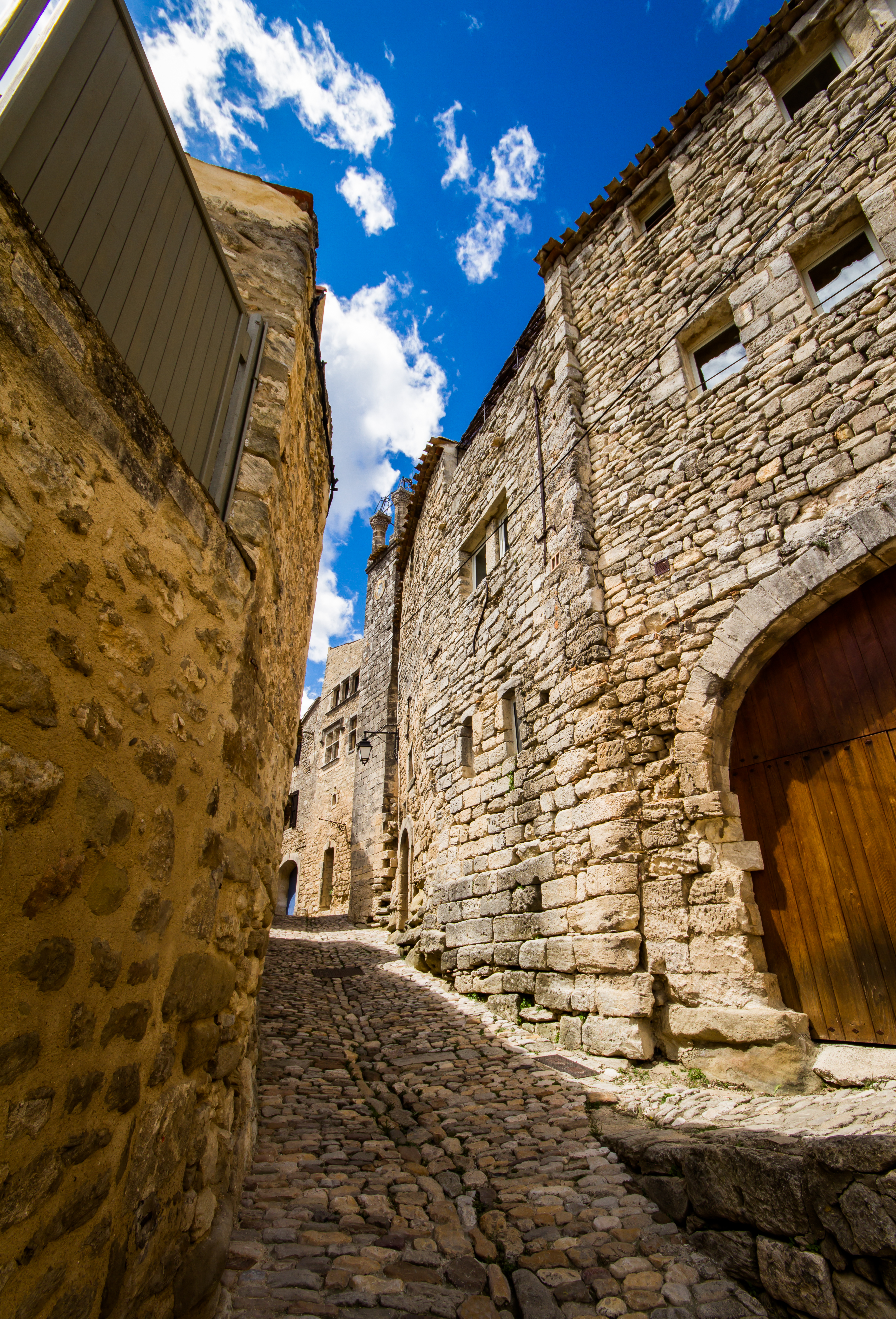 Dans les rues de Lacoste